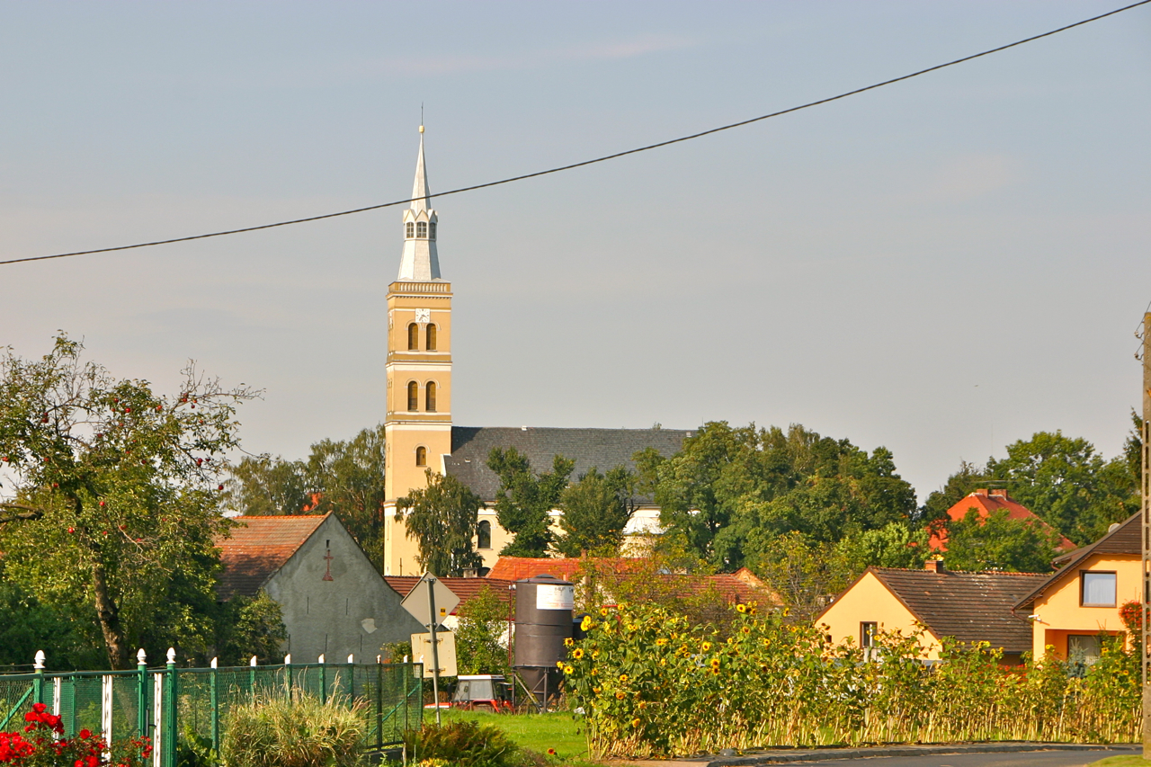 Saint Catherine Church in Śmicz.